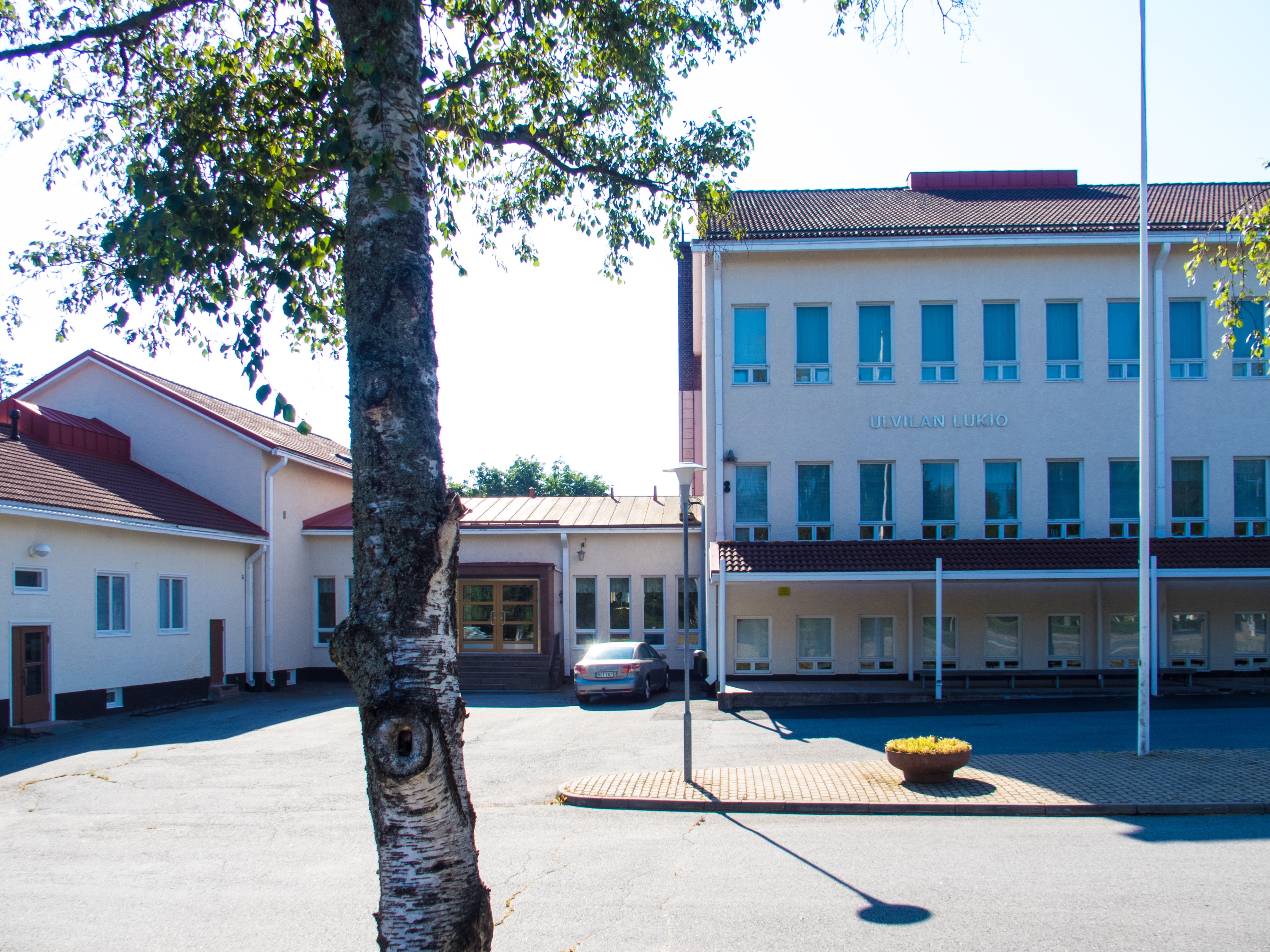 Ulvilan lukio, high school in Friitala, Ulvila, Finland